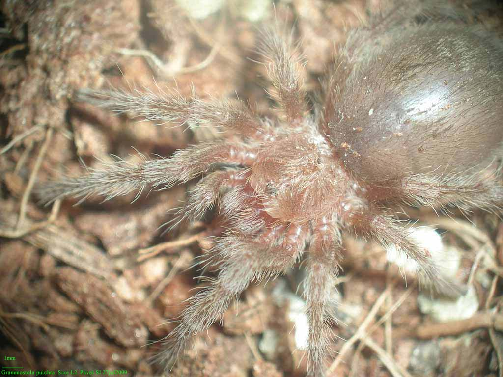 Grammostola Pulchra macro photo, spider L2 (very young), spider size about 20mm